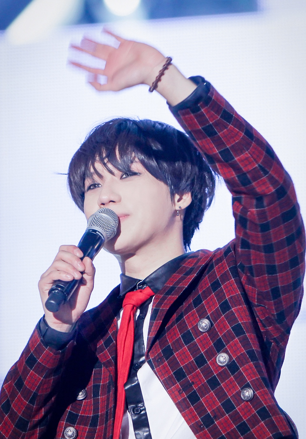 Taemin at the Melon Music Awards on November 14, 2013.